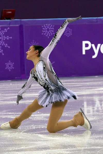 Alina Zagitova at the 2018 Winter Olympic Games - Short program